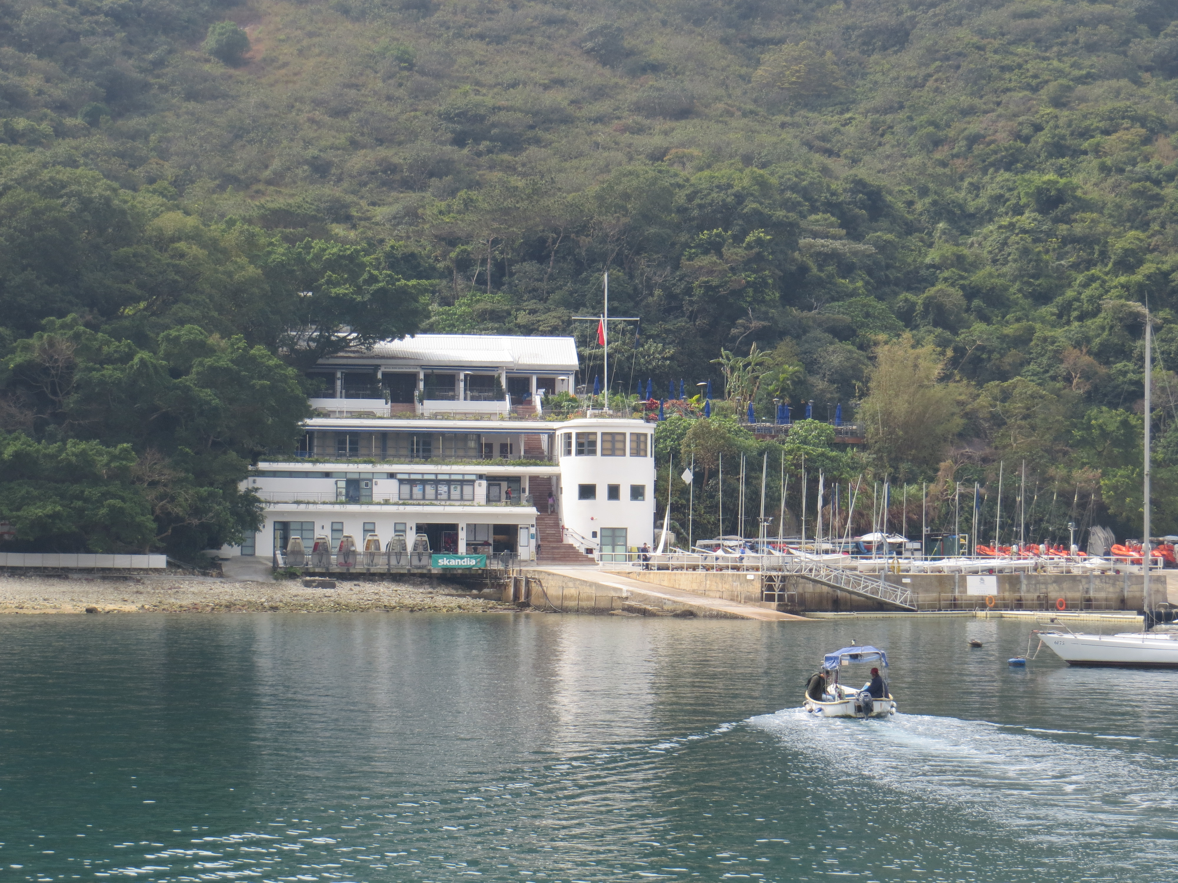 Royal Hong Kong Yacht Club clubhouse on Middle Island, near Deep Water Bay, Hong Kong中文（香港）: 香港遊艇會在熨波洲上的會所。接近香港深水灣。